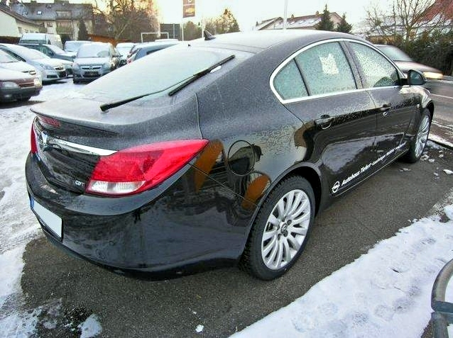 Opel Insignia 5Door